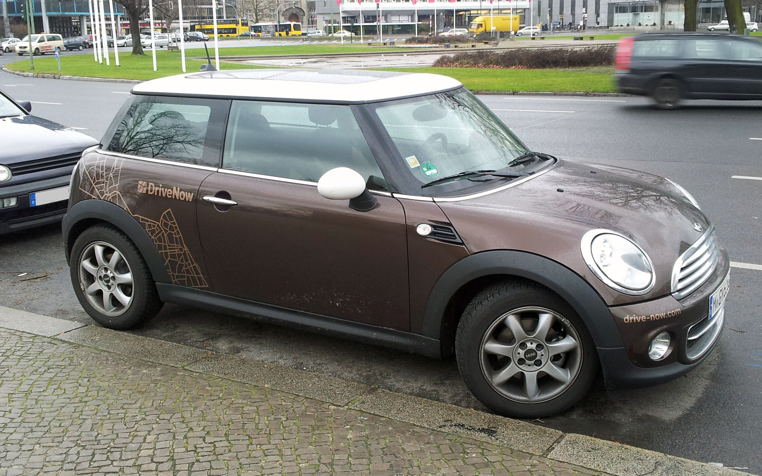 Mini of the BMW owned car sharing DriveNow in Berlin